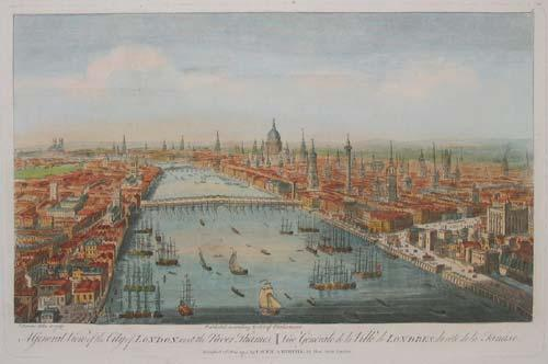 A General View of the City of London and the River Thames, plate 2 from 'Views of London', 1794